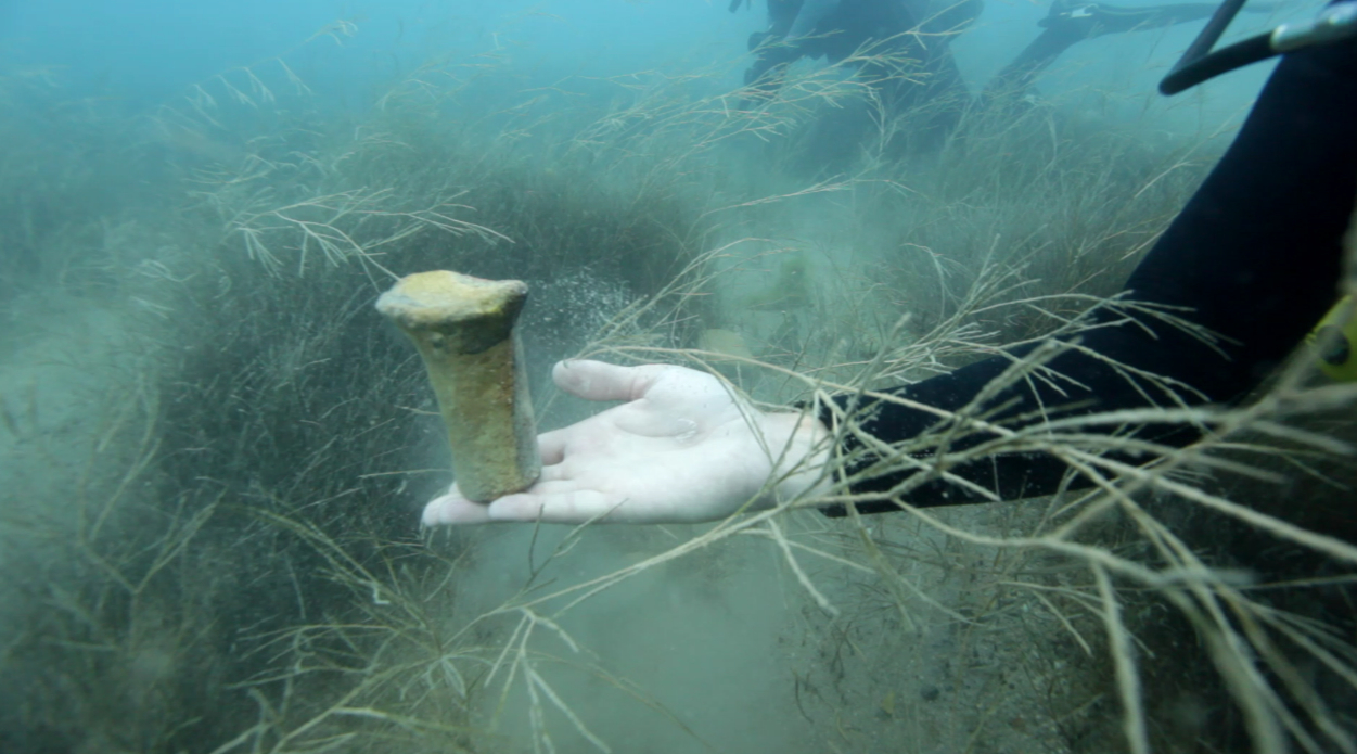 Issyk_Kul shootings